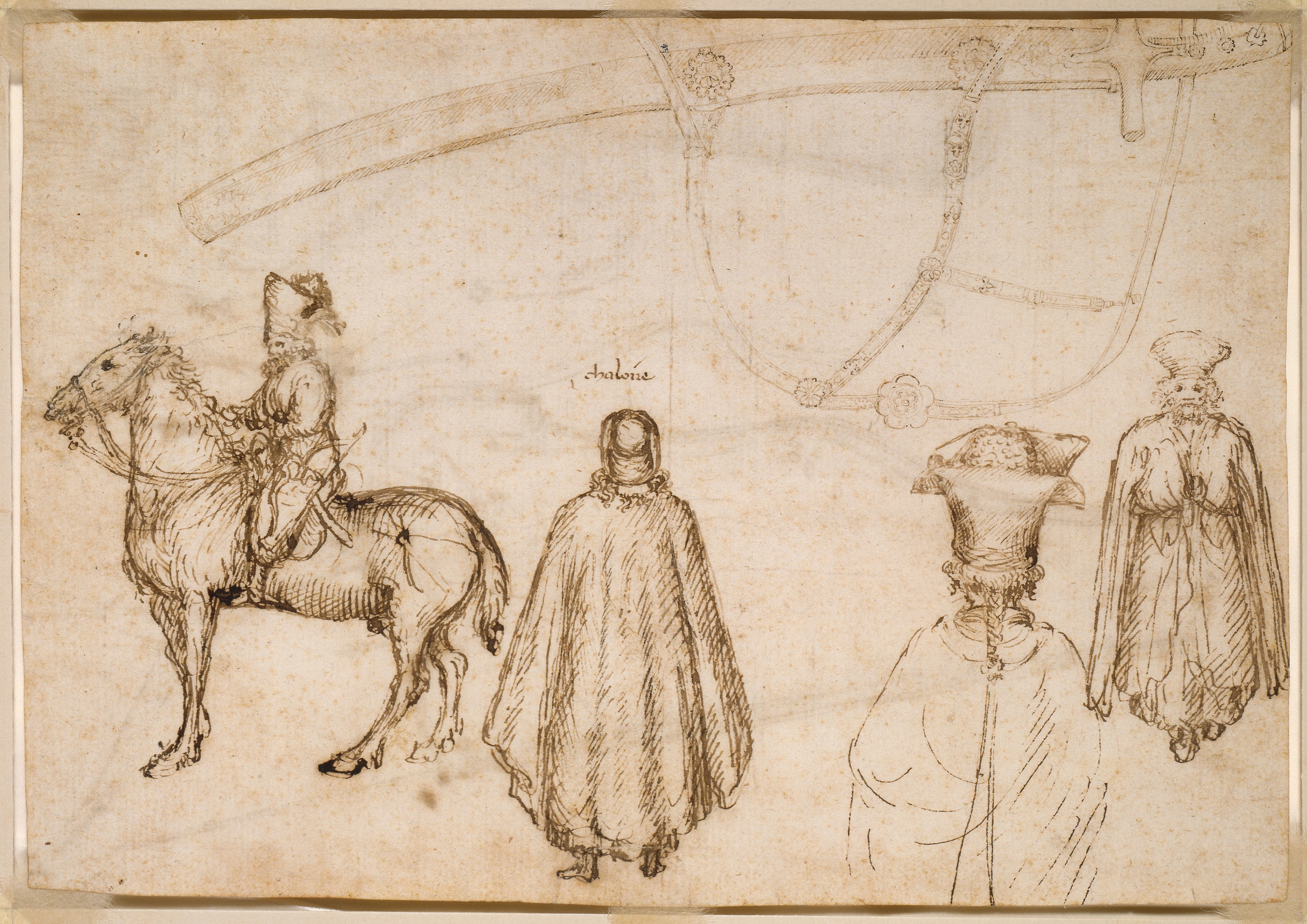 Sketches of the Emperor John VIII Palaeologus, a Monk, and a Scabbard